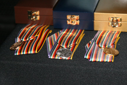 Medals presented at the 2008 World Junior Figure Skating Championships, displayed with their cases.